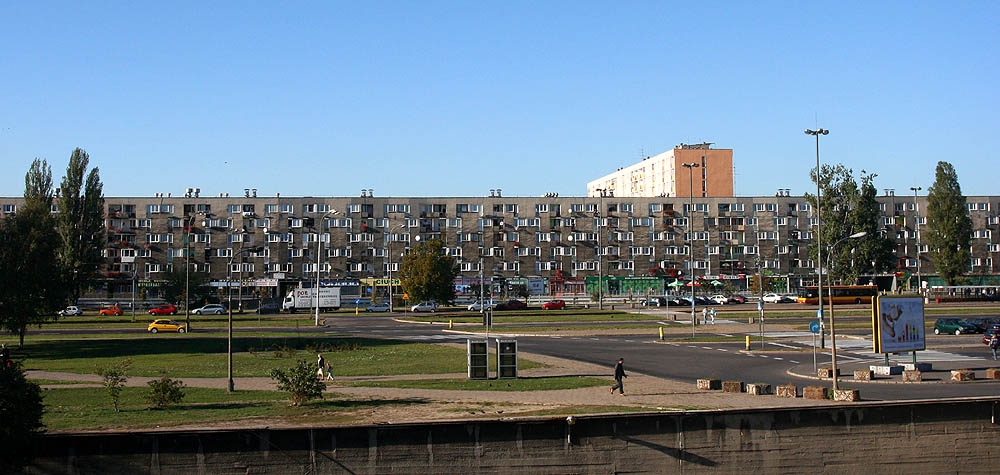 Massive residential buildings at Praga, a district of Warsaw, Poland.